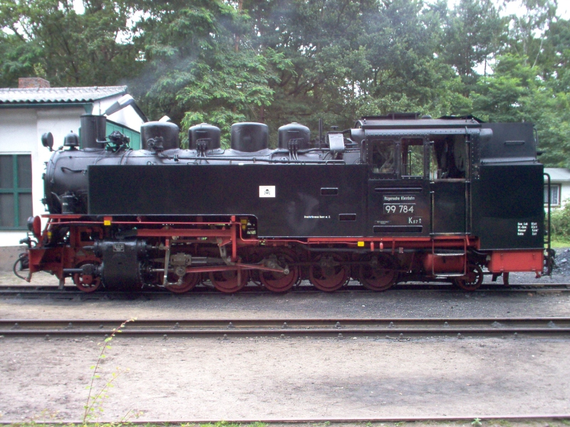 Deutsche Reichsbahn steam locomotive DR Class 99.77-79, so-called 'Rasenden Roland' at Göhren station in Mecklenburg-Vorpommern, Germany.